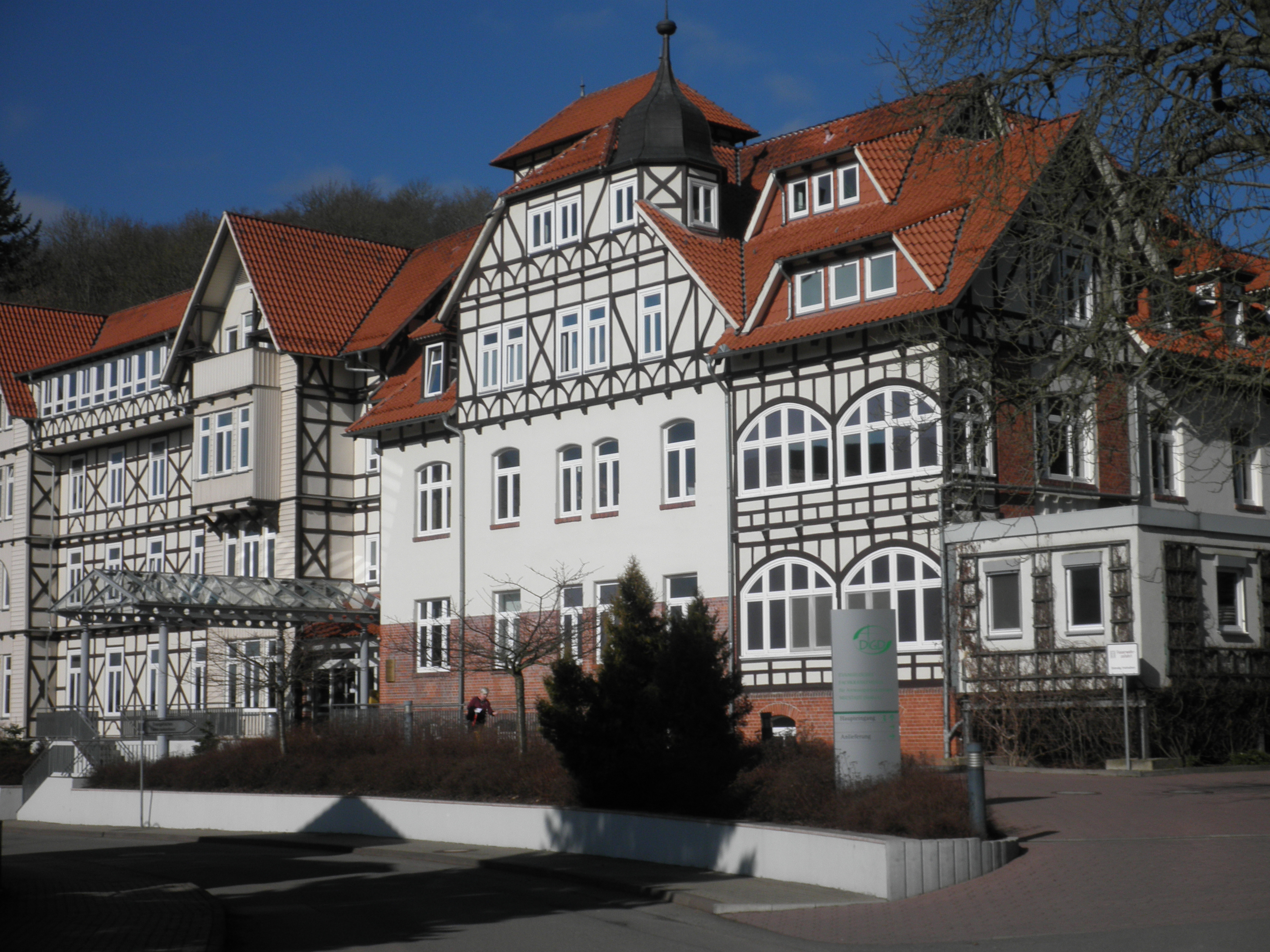 Hospital in Neustadt/Harz in Thuringia